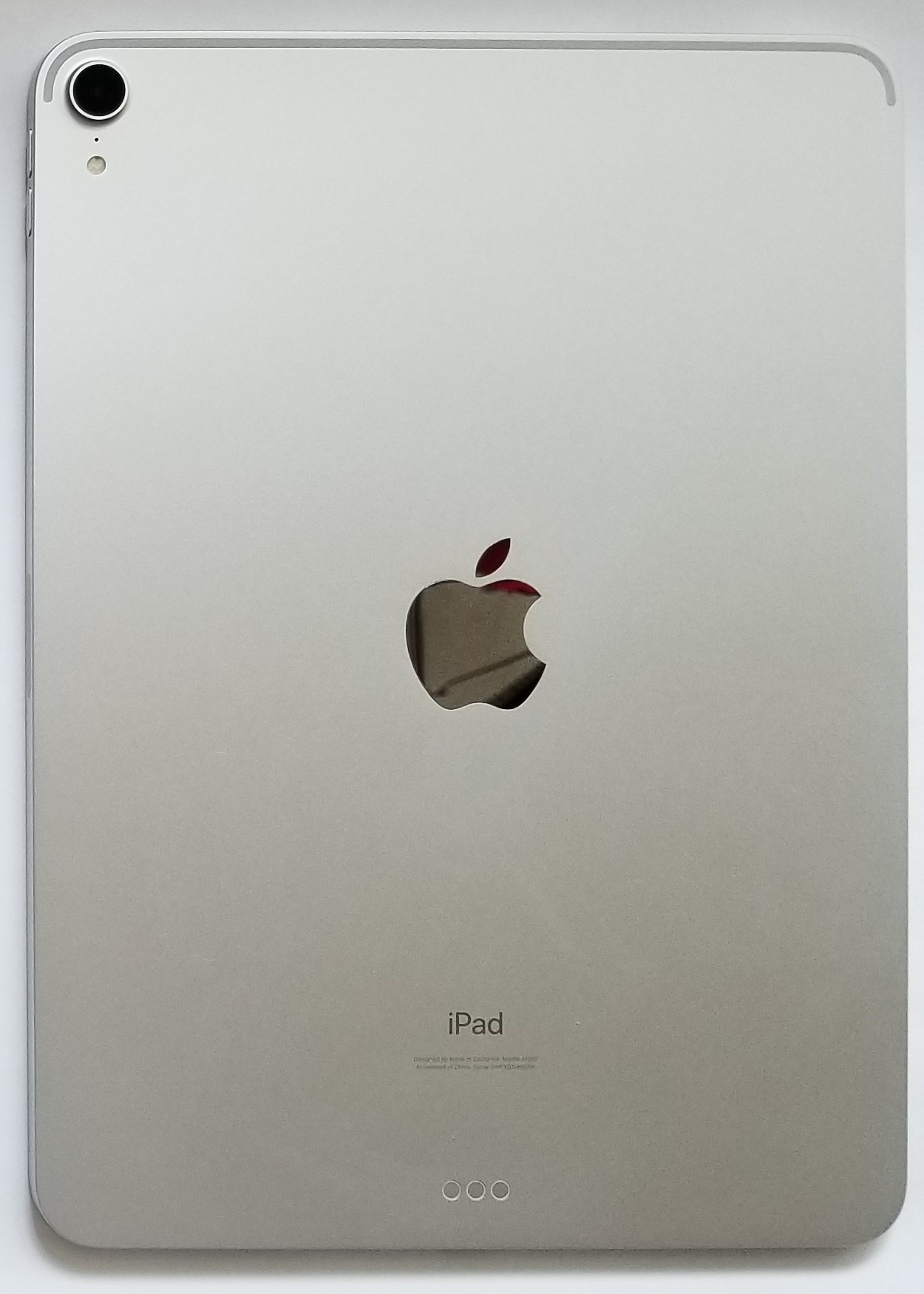 iPad Pro 11″ (silver)